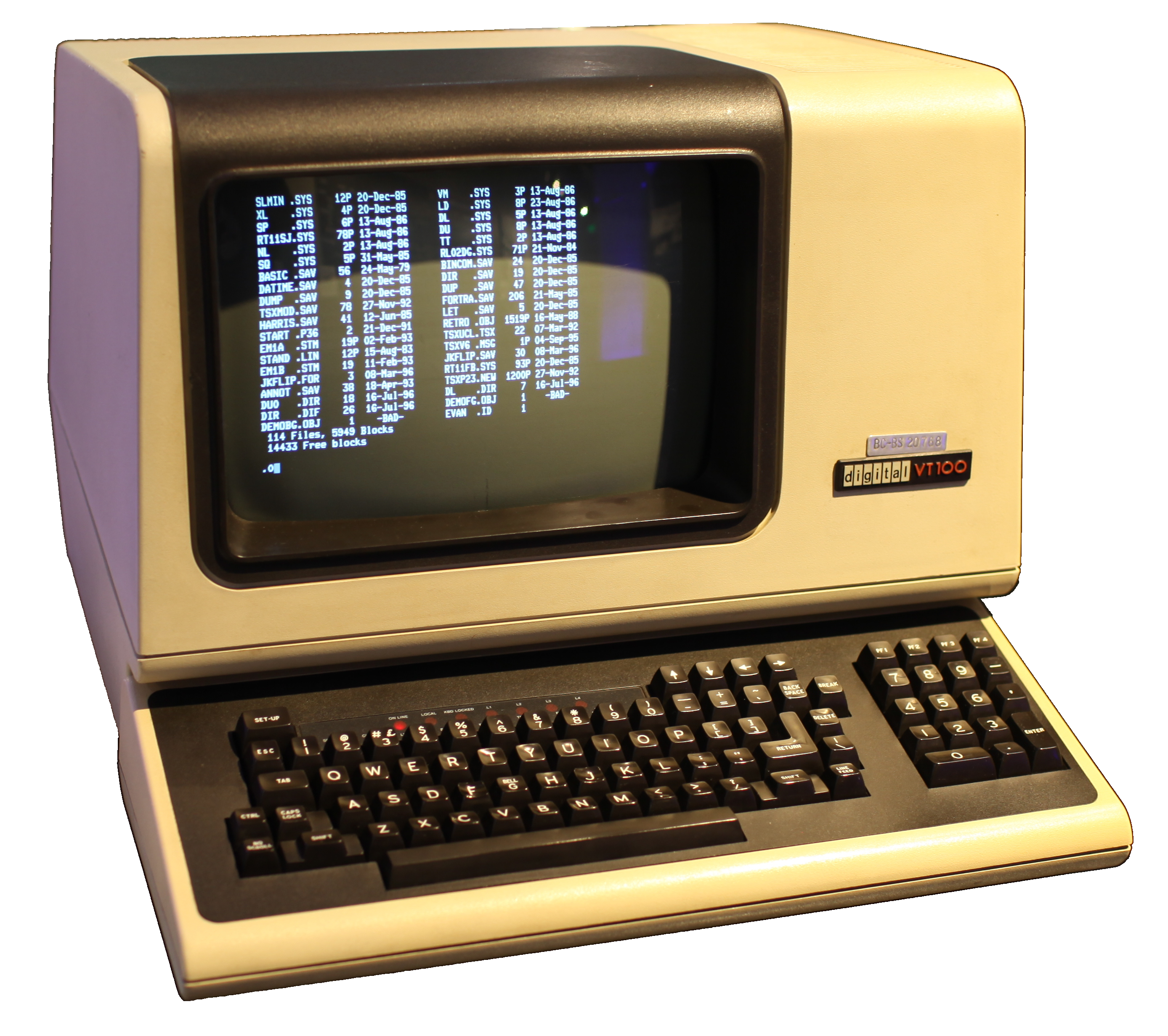 DEC VT100 terminal at the Living Computer Museum (apparently connected to the museum's DEC PDP-11/70). Modified from the original photo (by Jason Scott) by removing the background.